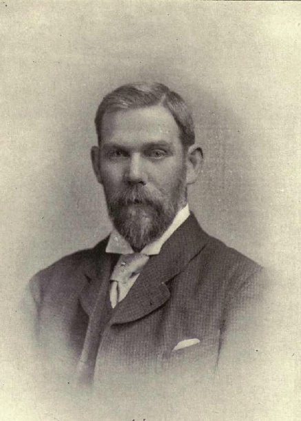 Portrait of Charles Dixon (1858-1926), British ornithologist